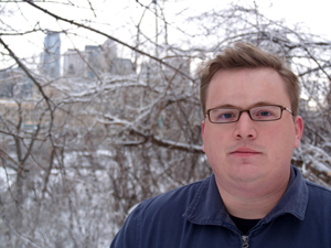 Author photo of David Oppegaard